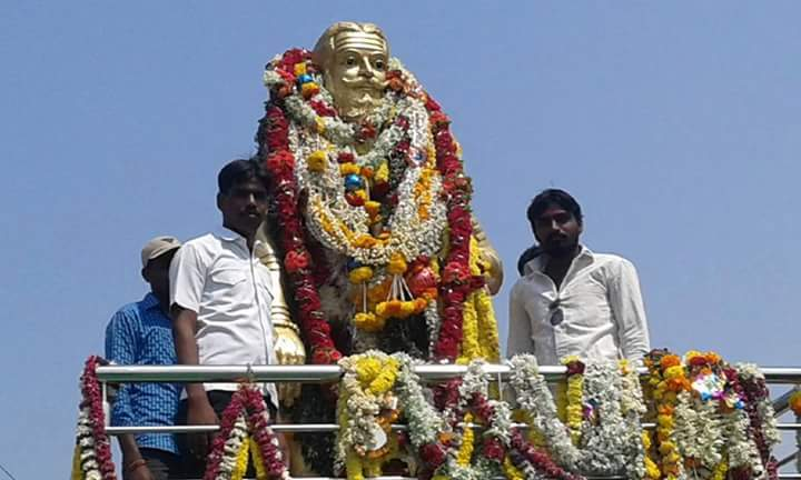 Machideva Jeyanthi Karnataga